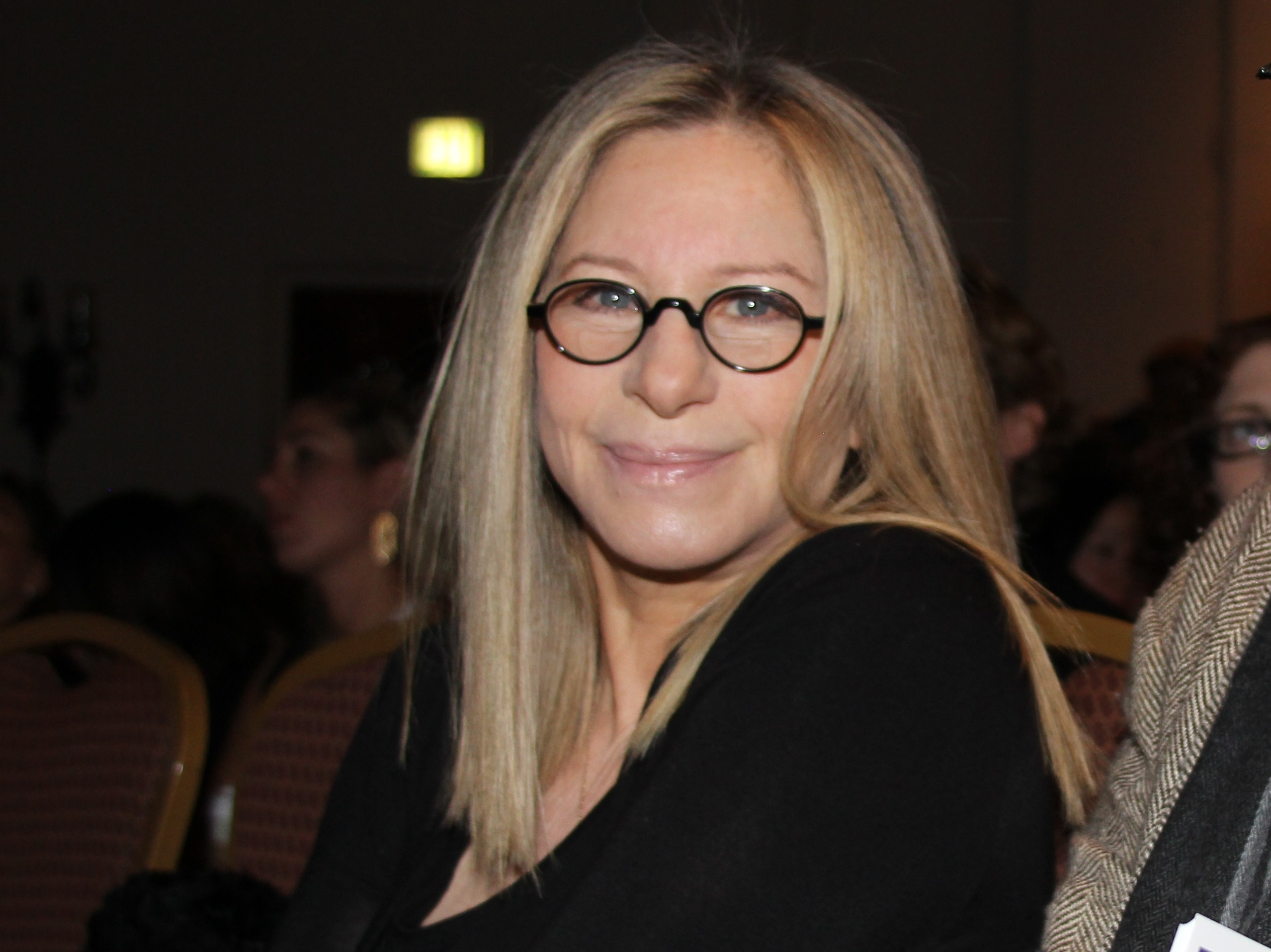 Barbra Streisand and James Brolin at the Clinton "Health Matters" Conference in La Quinta, California